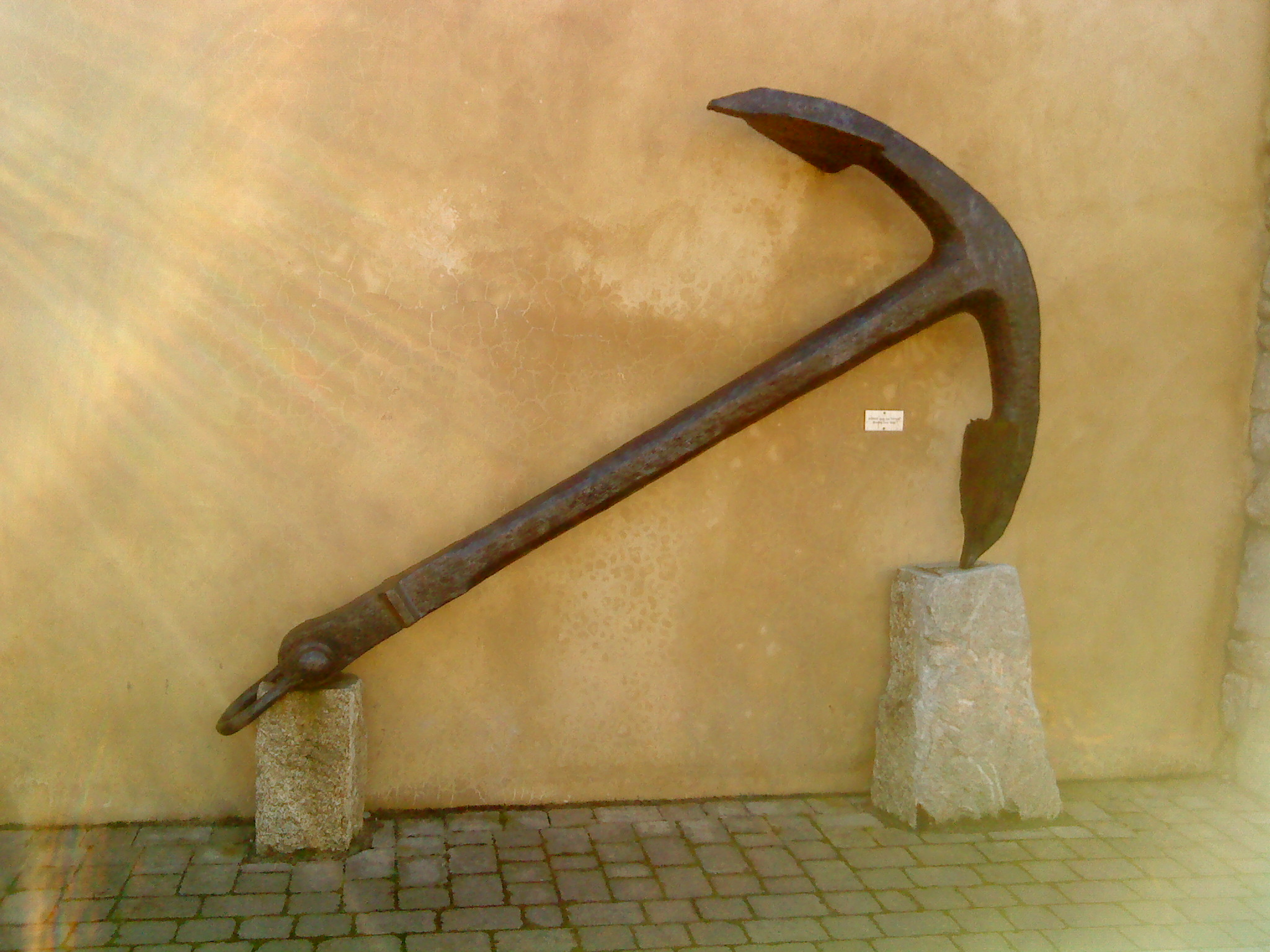 Norwegian ship which ran aground on 14 December 1896 in the Isles of Scilly. The anchor is now mounted in the Flying Boat Club, Tresco.